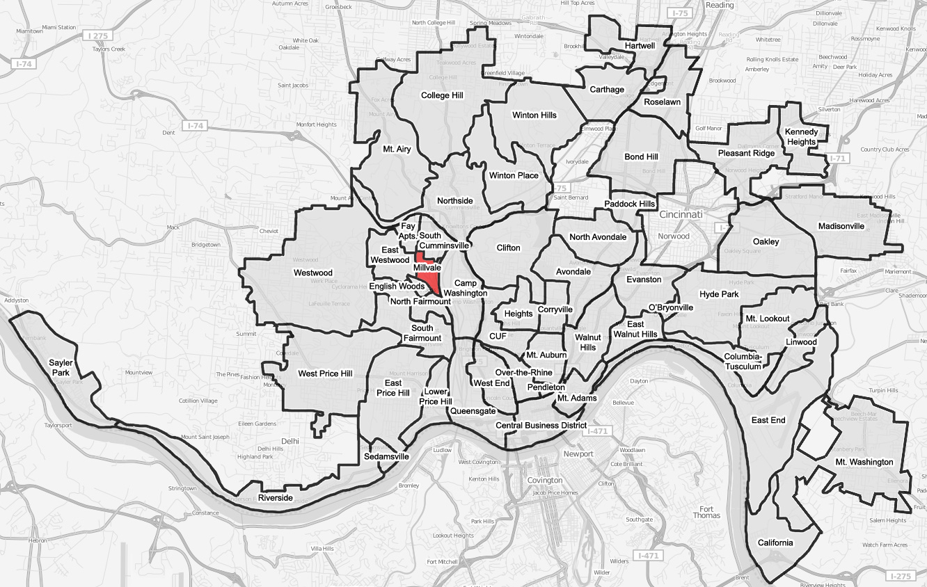 A map of the neighborhood of Millvale within Cincinnati, Ohio. Neighborhood lines are based on information from This street map is derived from a free map.